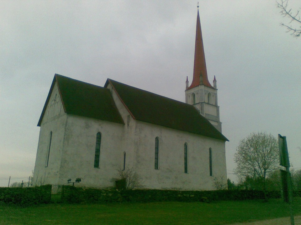 Türi church.